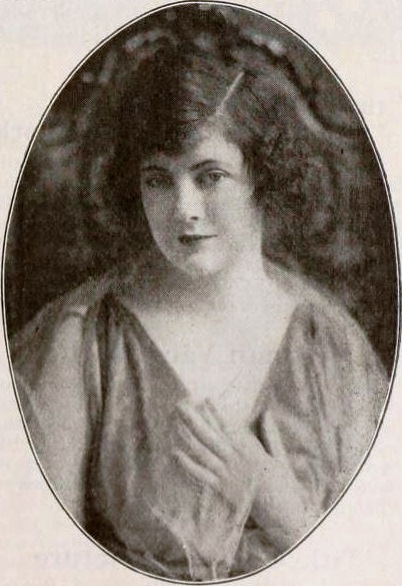 Actress Marguerite Marsh, on page 27 of the May 3, 1919 Exhibitors Herald.